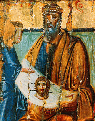 An encaustic painting entitled Abgar [of Edessa] receiving the Mandylion from Thaddeus.